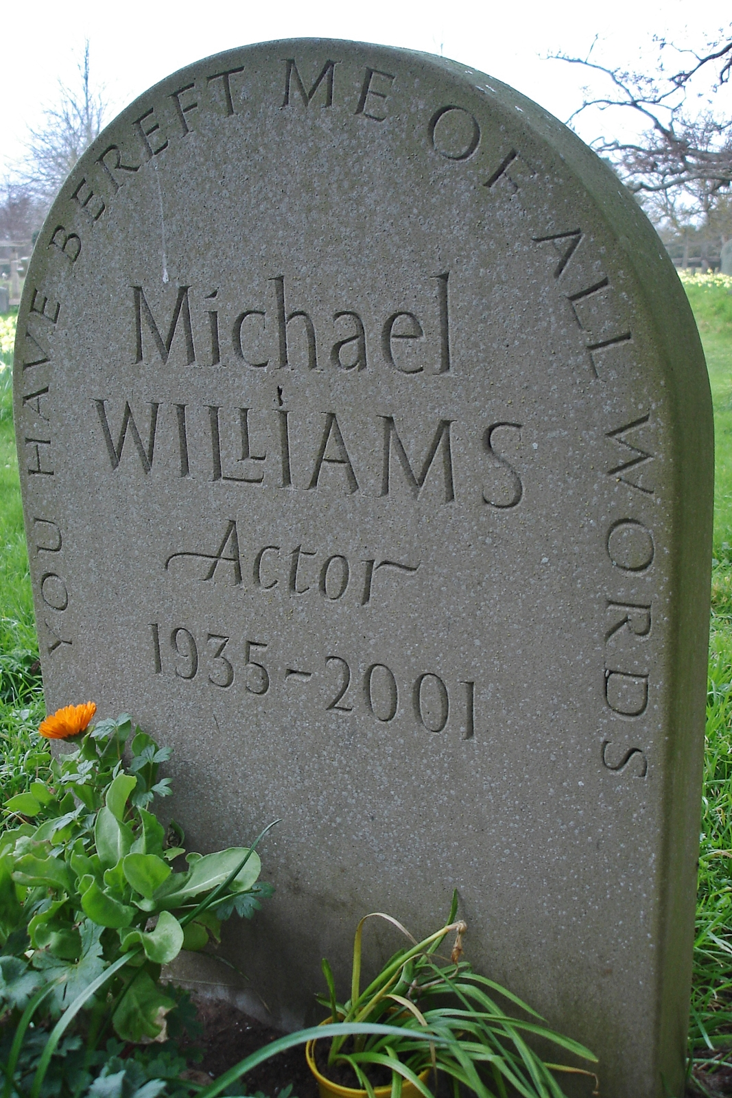 Grave of Michael Williams, actor husband of Dame Judi Dench. St Leonards churchyard, Charlecote, Warwickshire, UK